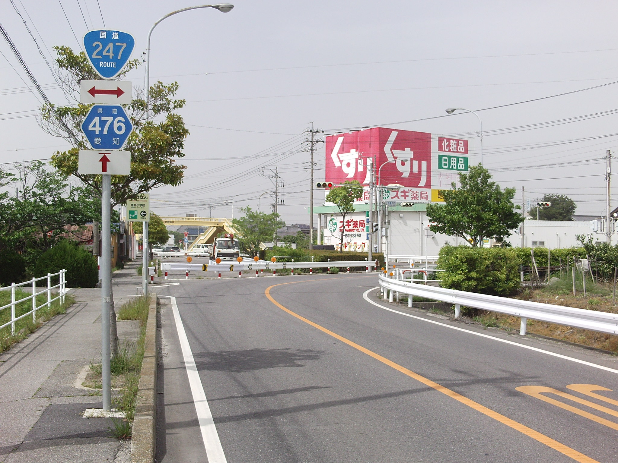 Aichi prefectural road No.476 in Isshikichoajihama, Nishio, Aichi.